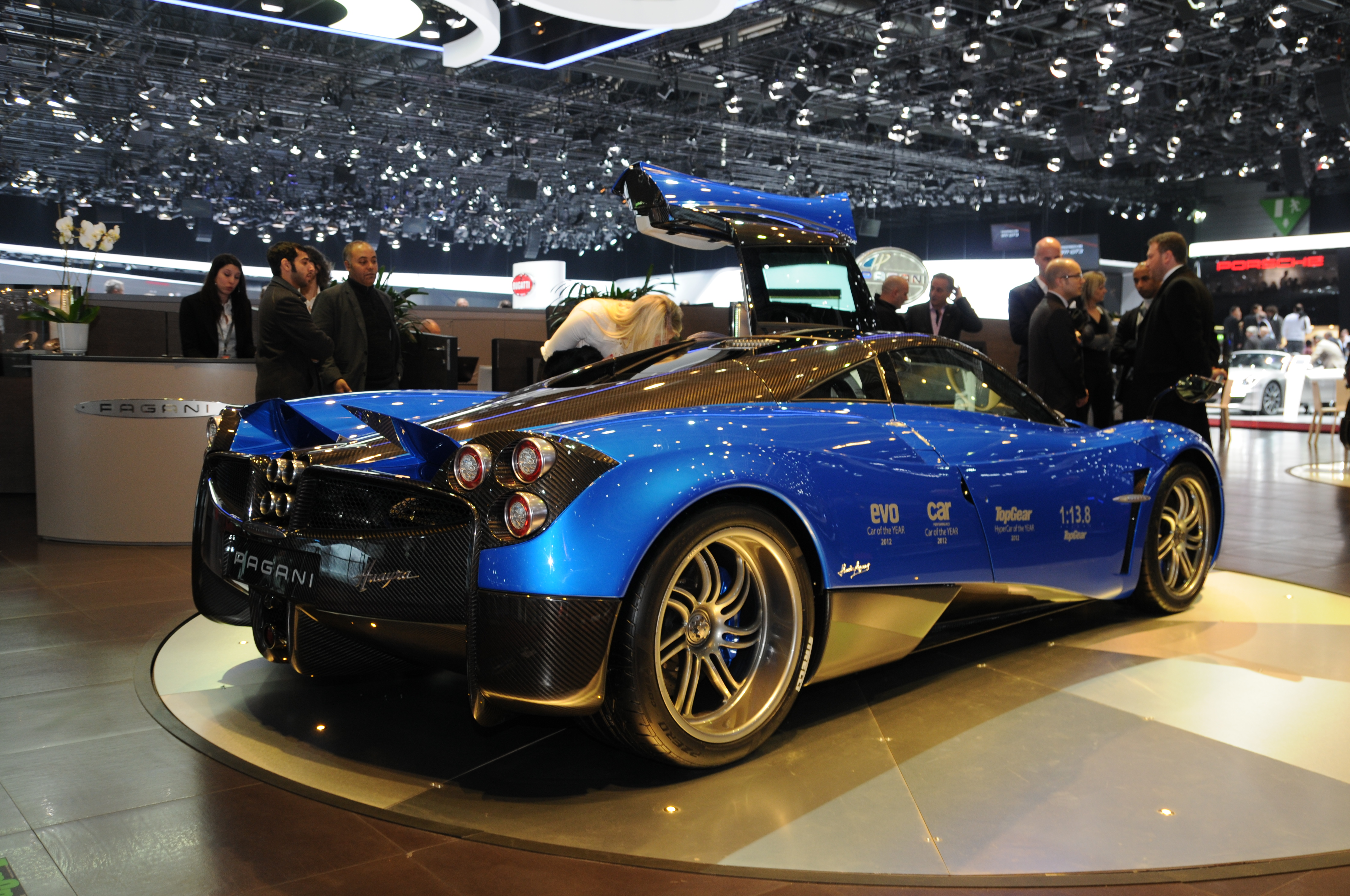 Geneva Motor Show 2013 (photos taken on the first press day)